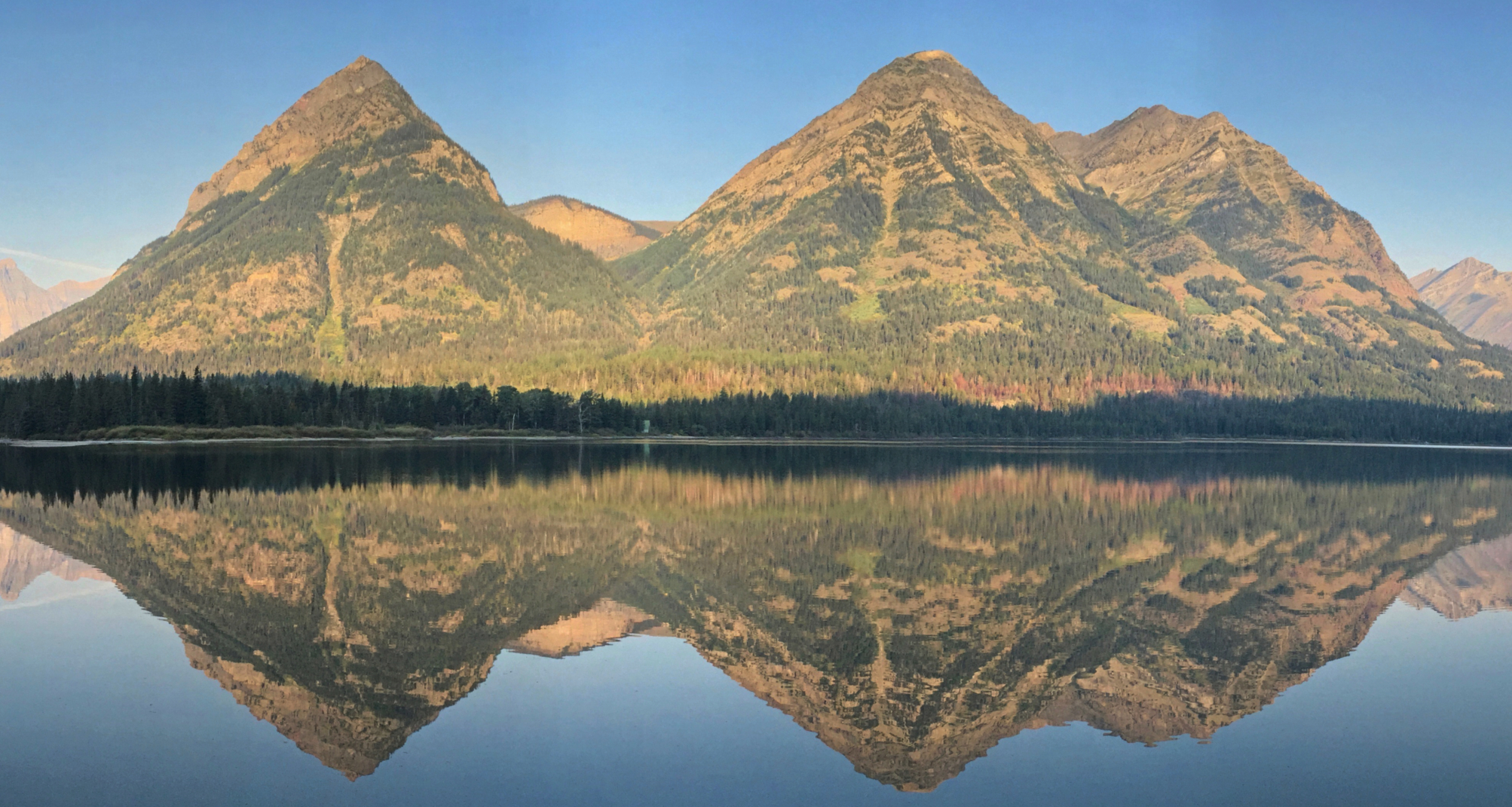 Goat Haunt Ranger Station view of Olson Mountain (left) and Campbell Mountain (right) reflected in Waterton Lake.